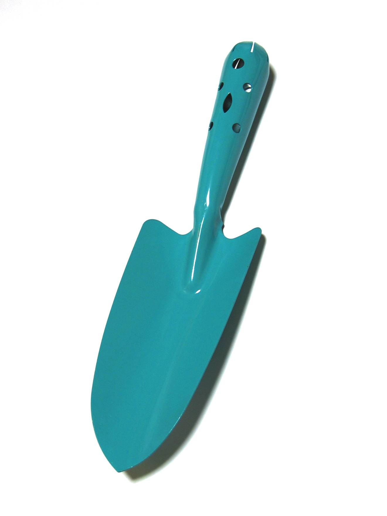 This is a steel trowel for gardening.